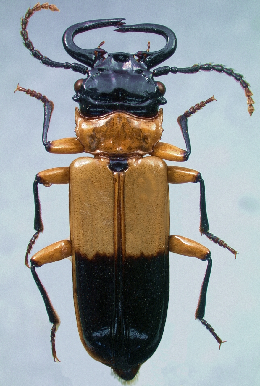 Dorsal habitus AutoMontage photo of Palaestes abruptus